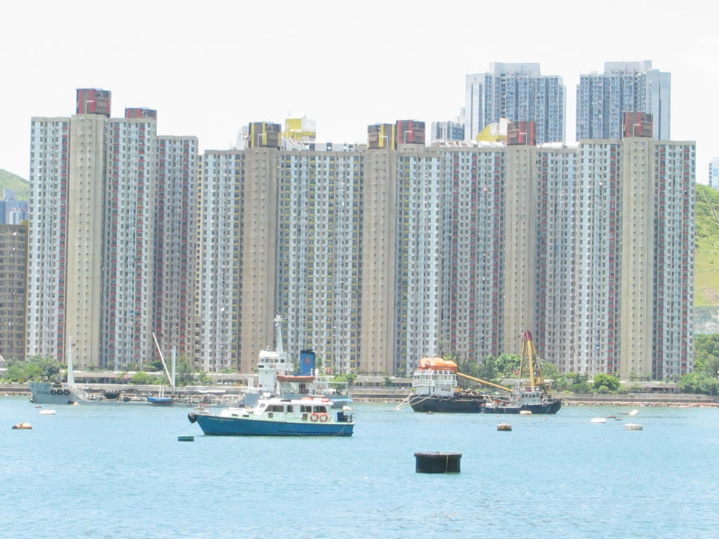 Ching Tai Court, Tsing Yi, New Territories, Hong Kong